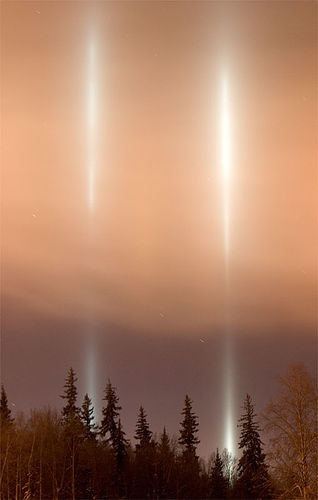 Light pillars above the University of Alaska at Fairbanks. The source is a pair of bright uncovered worklights a few thousand feet behind the trees. Joseph N. Hall 2005 The above license applies to this photo at this resolution or below. Joseph N Hall 20:37, 31 August 2006 (UTC)